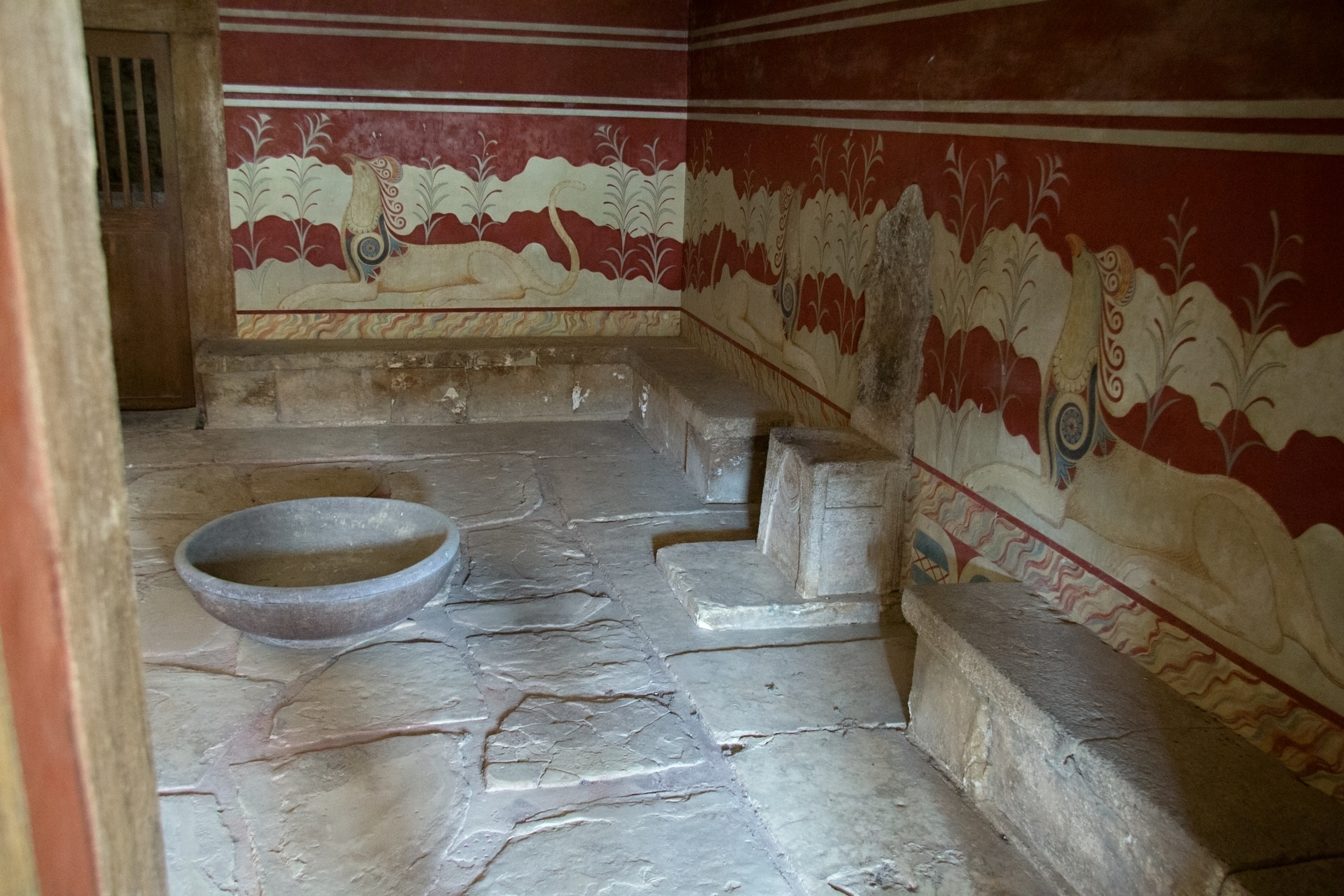 Throne room, Knosos.